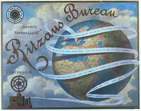 Ritzaus Bureau advertisement